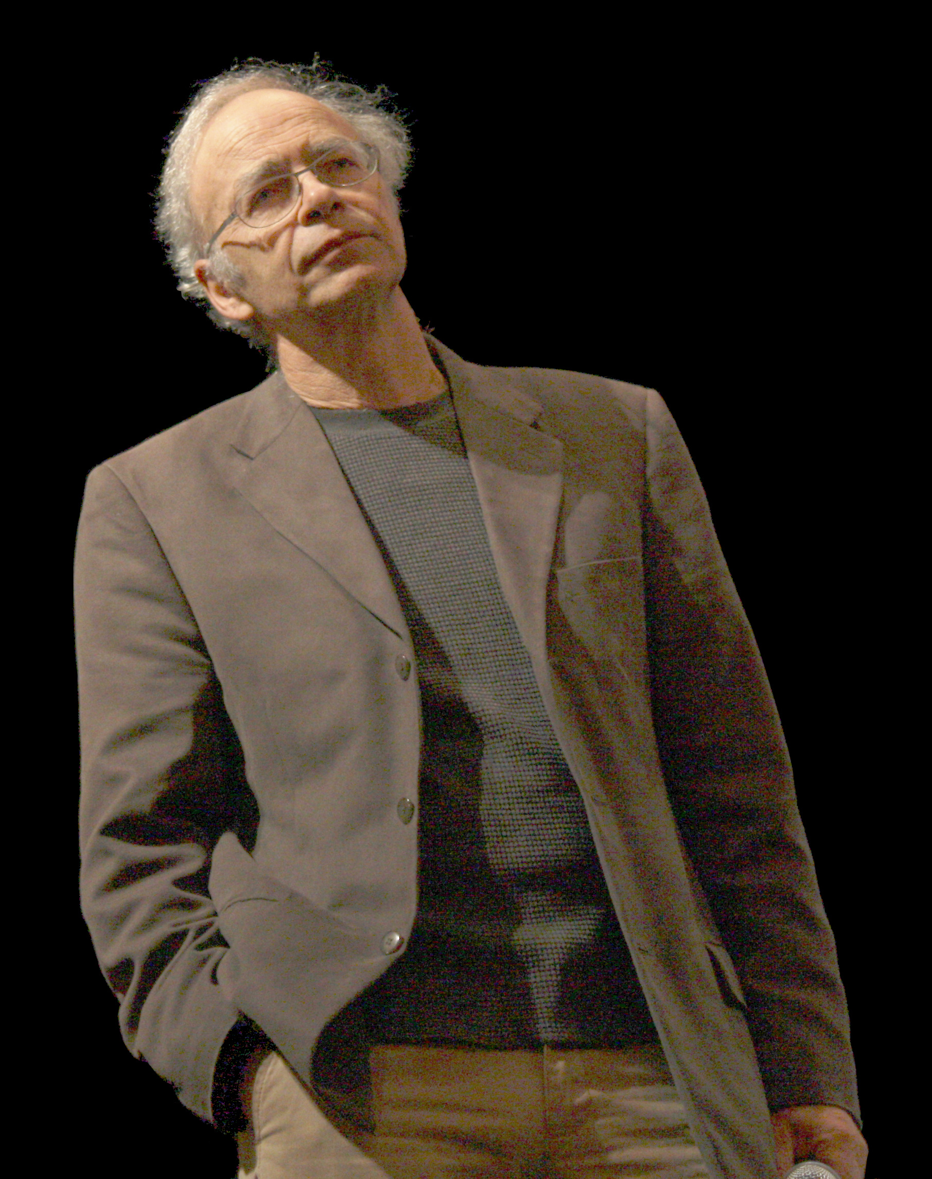 Peter Albert David Singer at The College of New Jersey